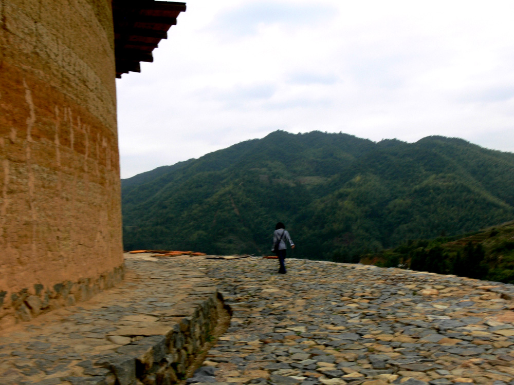 Two tier stone foundation of Fujian Tulou